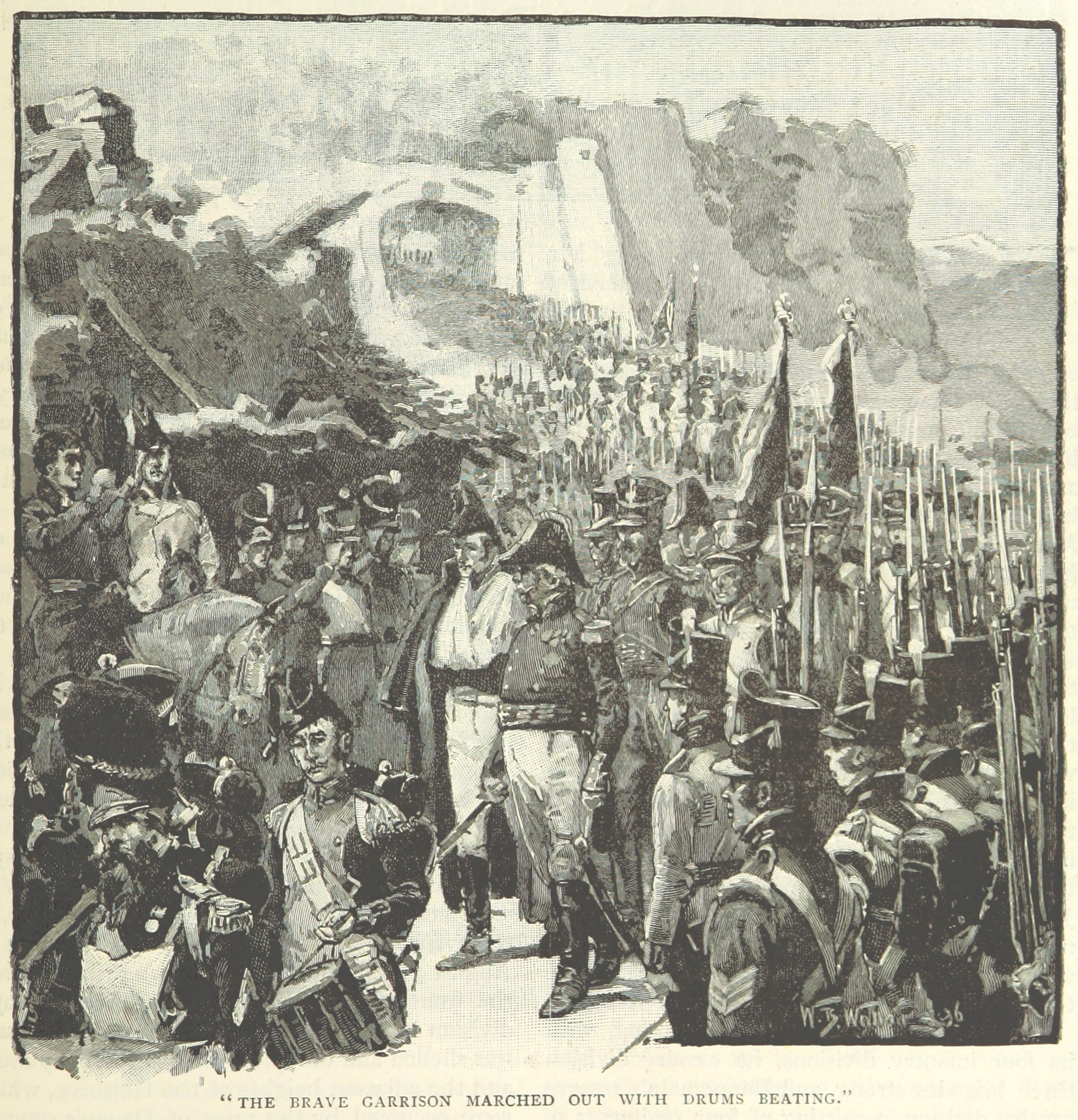 Louis Emmanuel Rey surrenders at the Siege of San Sebastián.